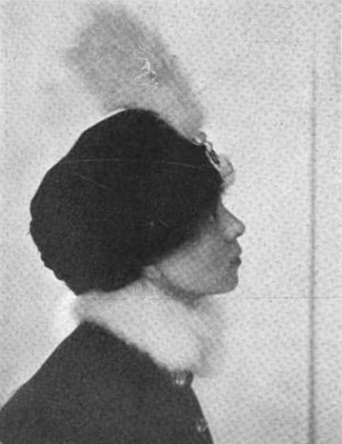 "The American Club Woman Magazine", Interviews with Clever People, by Blanche Mac Donald, July 1914, page 11